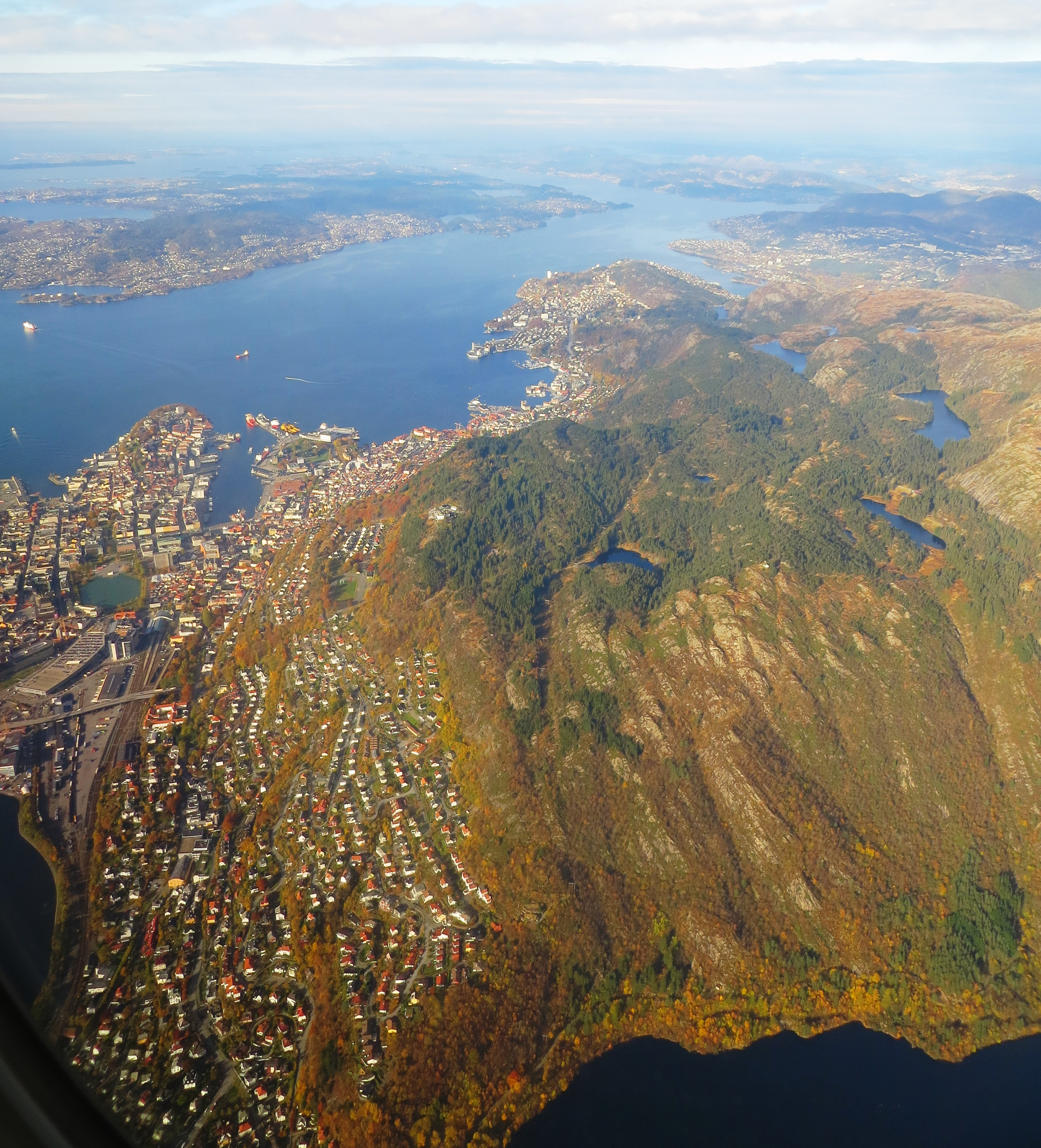 The mountaneous area immediately west of central Bergen, Hordaland (Norway).